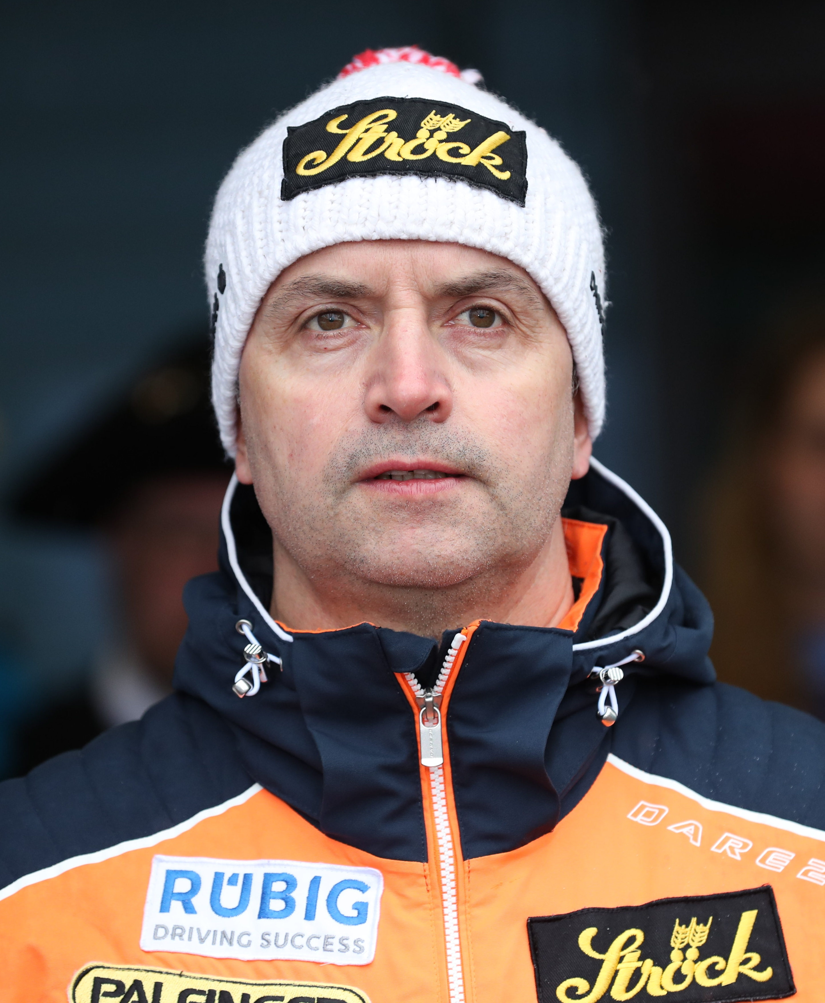 Women's World Cup at the 2019/20 Oberhof Luge World Cup